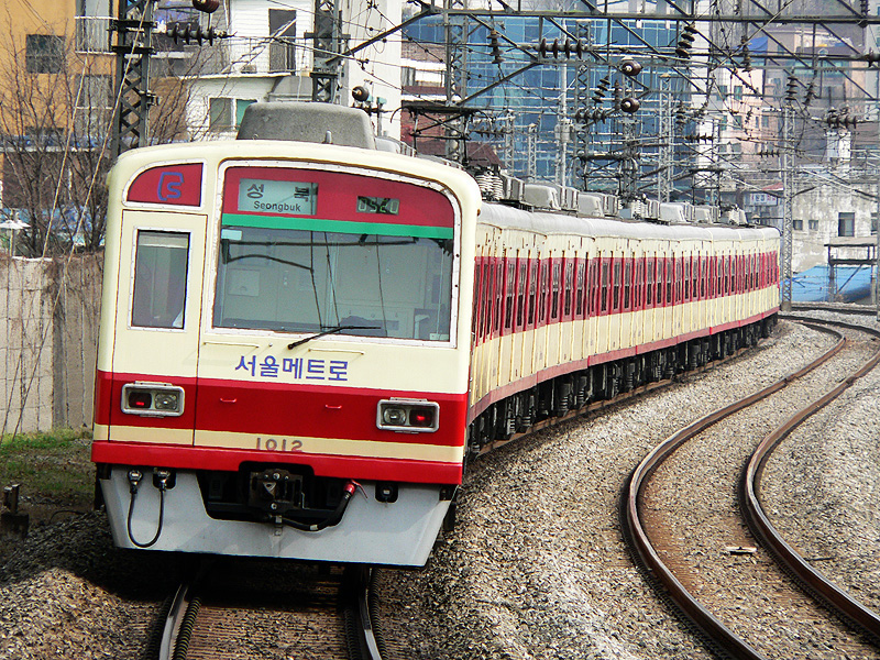 Seoul Metro 1000series EMU (Second Type)